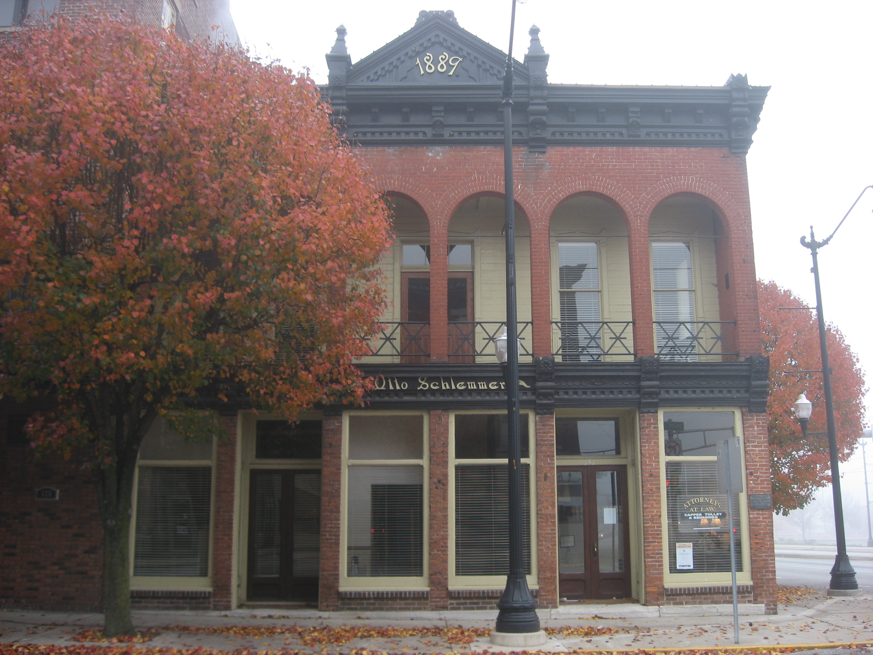 Front of the Otto Schlemmer Building, located at 129-131 N. Green Street in Crawfordsville, Indiana, United States. Built in 1854, it is listed on the National Register of Historic Places.